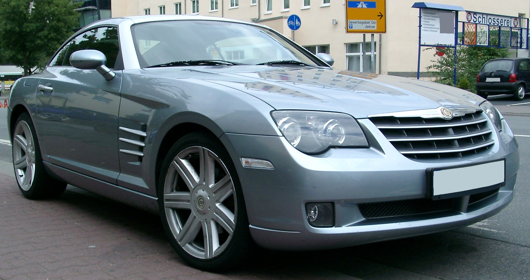 Chrysler Crossfire